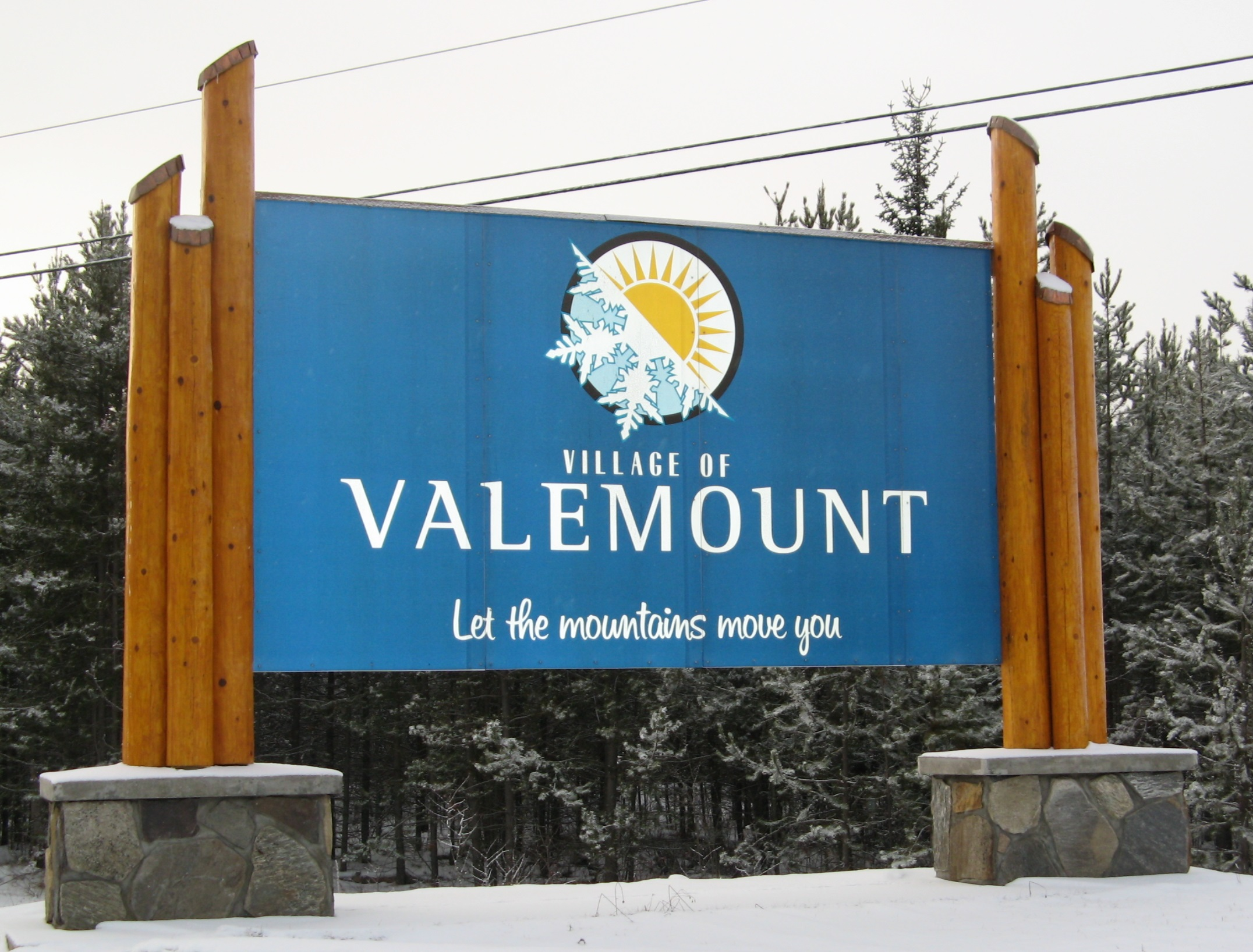 A sign welcoming visitors to Valemount, British Columbia, Canada.